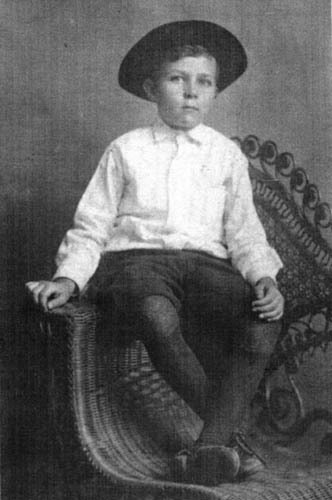 Photograph of Robert E. Howard at about five years of age